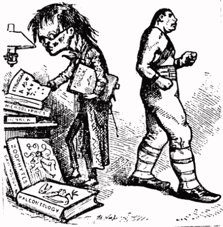 An intellectual contrasted with a prize-fighter; by Thomas Nast ca. 1875